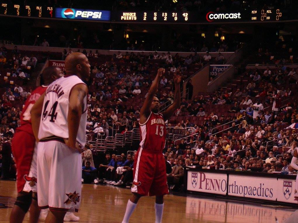 Glenn Robinson shoots a free throw at the First Union Center in Philadelphia